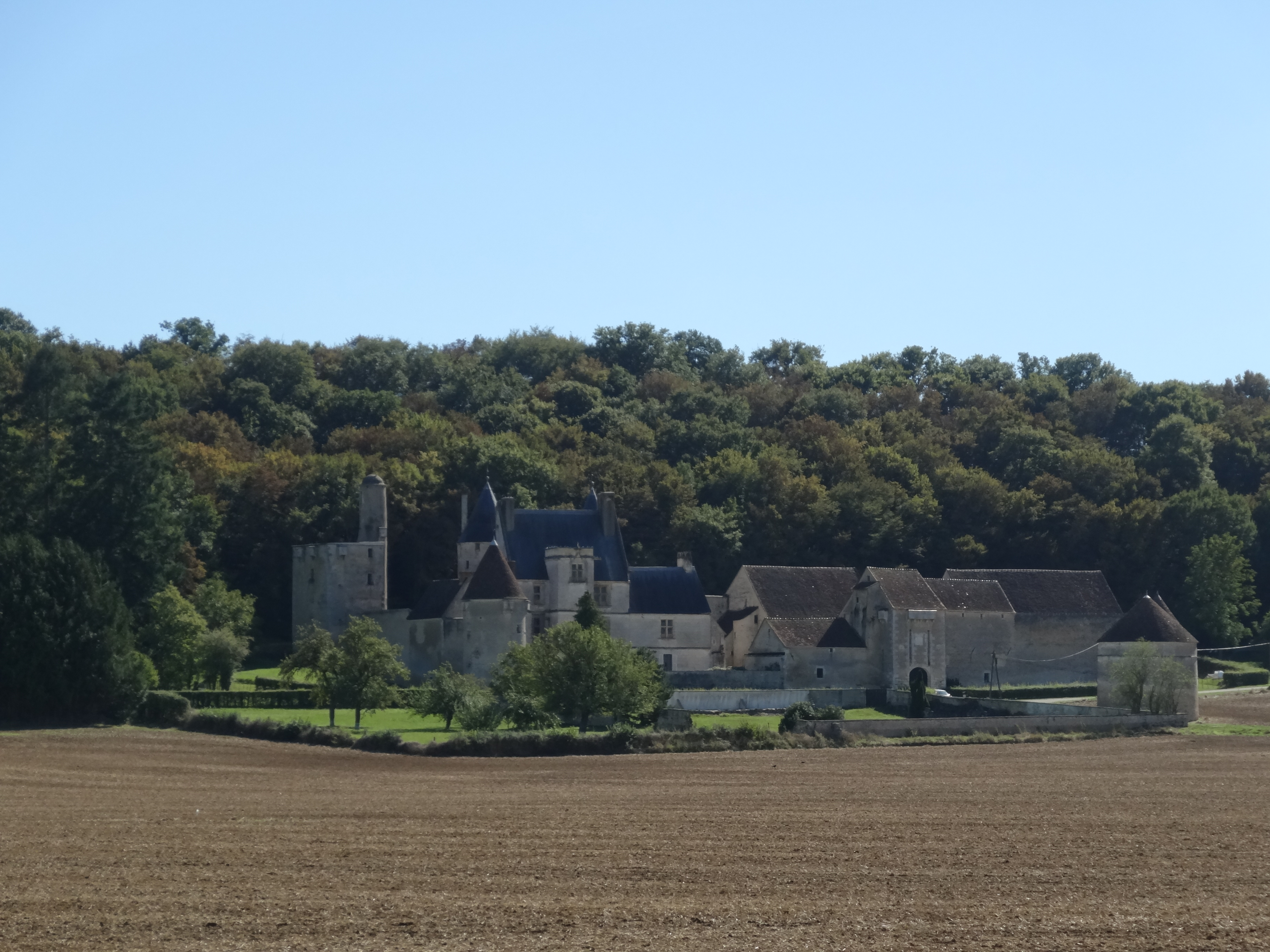 Faulin Castle, Château de Faulin, Lichères-sur-Yonne, Département Yonne, Région Bourgogne-Franche-Comté, France.